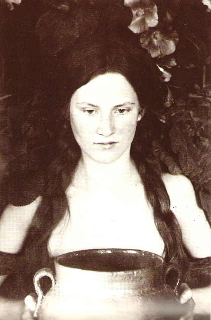 Portrait of Elsie Whitaker taken around 1907, by photographer Laura Adams Armer. California Historical Society, San Francisco. FN-22554